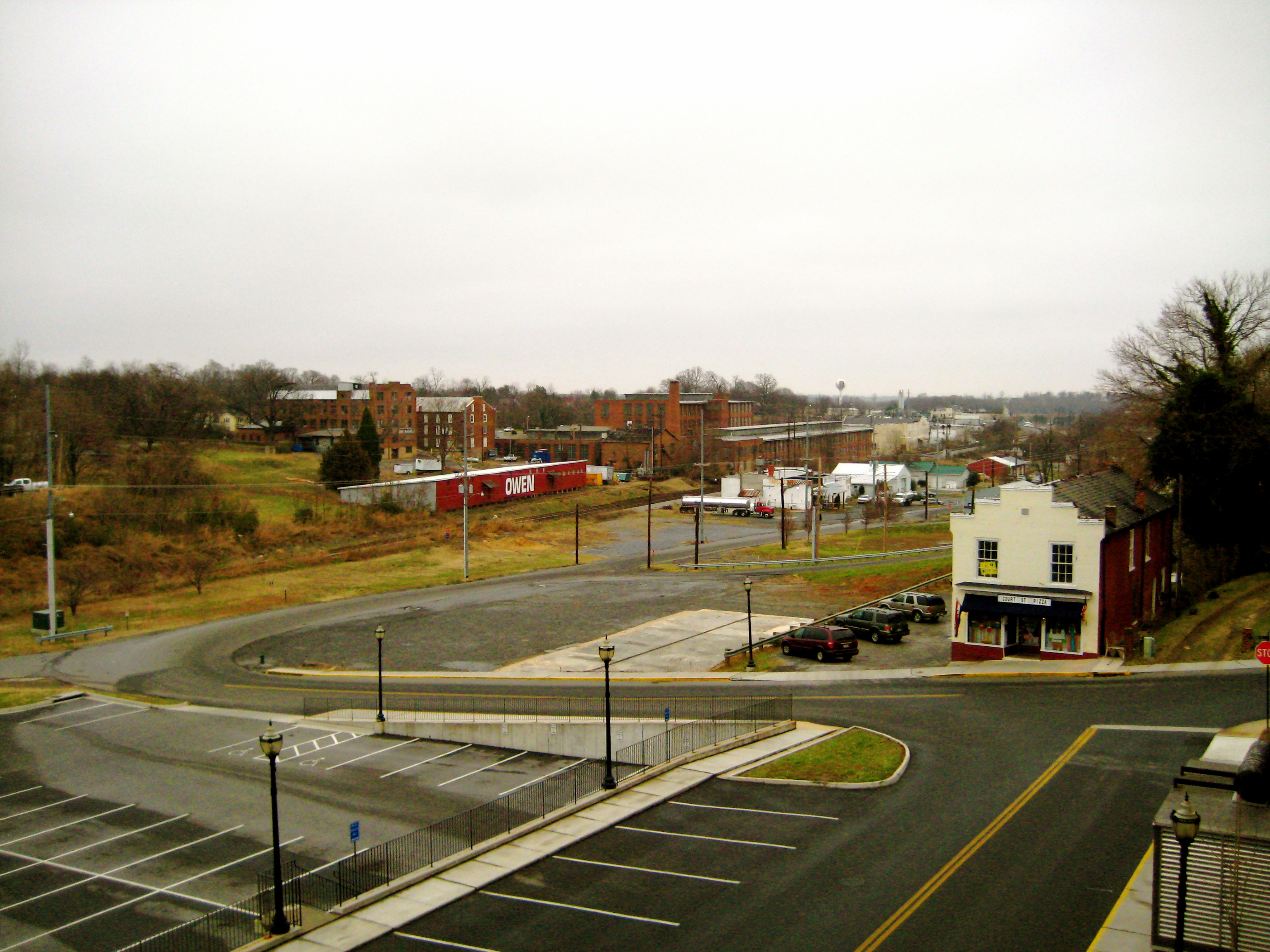 View of the city of Bedford, Virginia, USA